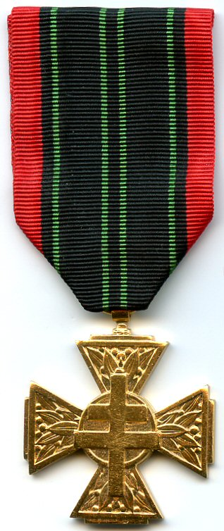 Resistance fighter combatant's cross (France) Obverse